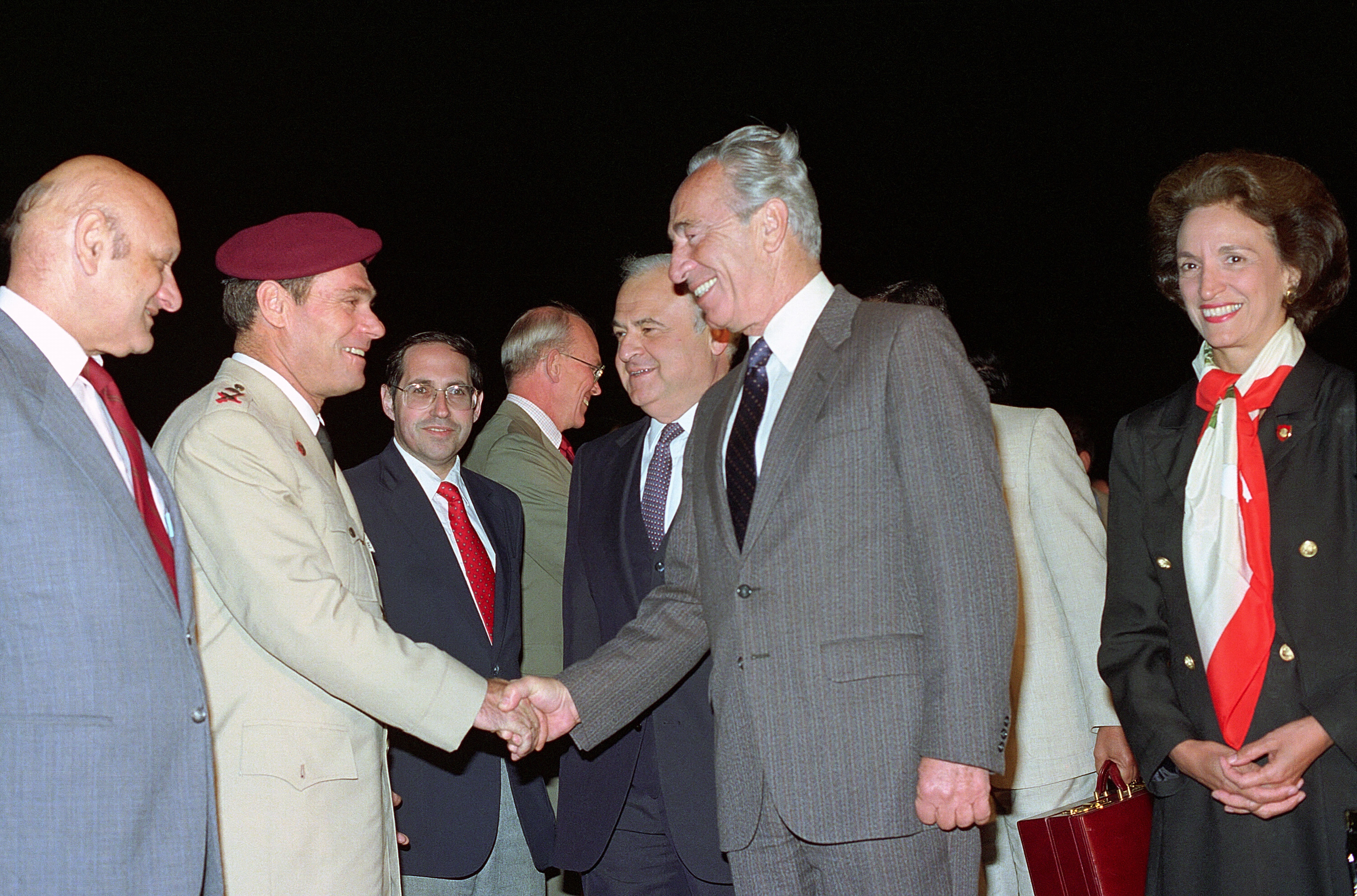 Shimon Peres, Amos Yaron and Elyakim Rubinstein